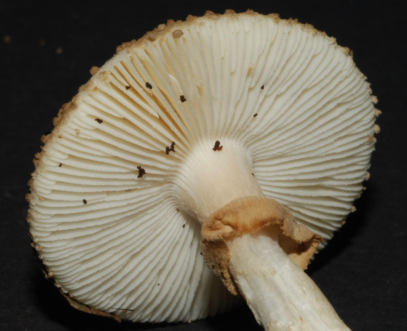 Amanita australis (G. Stev.) Location: Kaipara harbour, Auckland, New Zealand. Notes: On soil under Kunzea ericioides in native New Zealand bush.